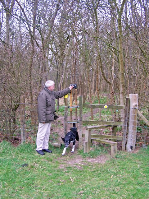 Dog door demonstration All the stiles along this footpath all have a useful lift-up "hatch" to allow dogs to have easy access. Here, Pete and Basil demonstrate the technique. (Basil is the dog).